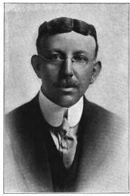 Maurice S Hellman was a banker born in Los Angeles, the nephew of Isaias Hellman.